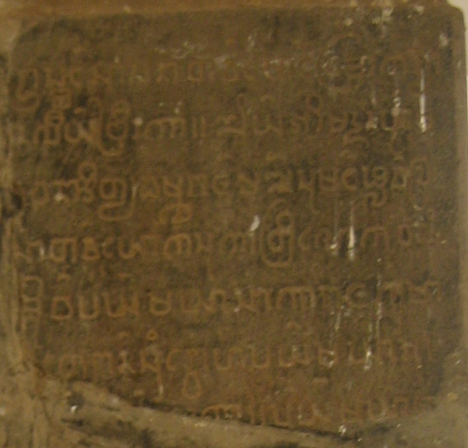 Detail of Old Burmese Myazedi Inscription, cropped from File:Myazedi-Inscription-Burmese.JPG.